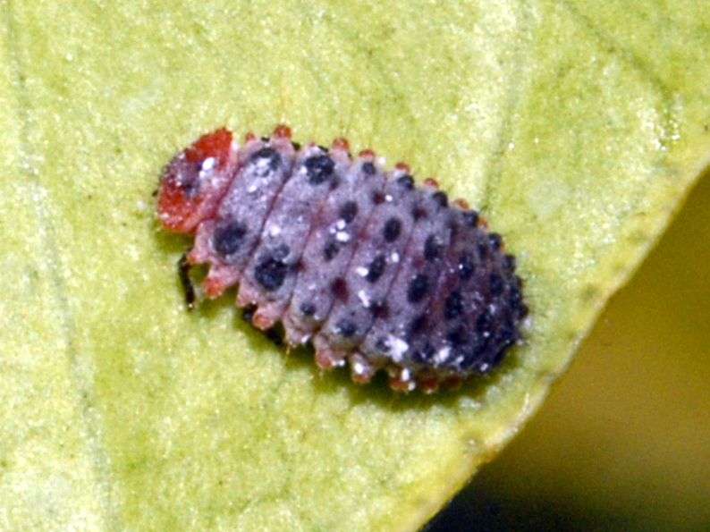 A larva of Rodolia cardinalis. Genova, Italy